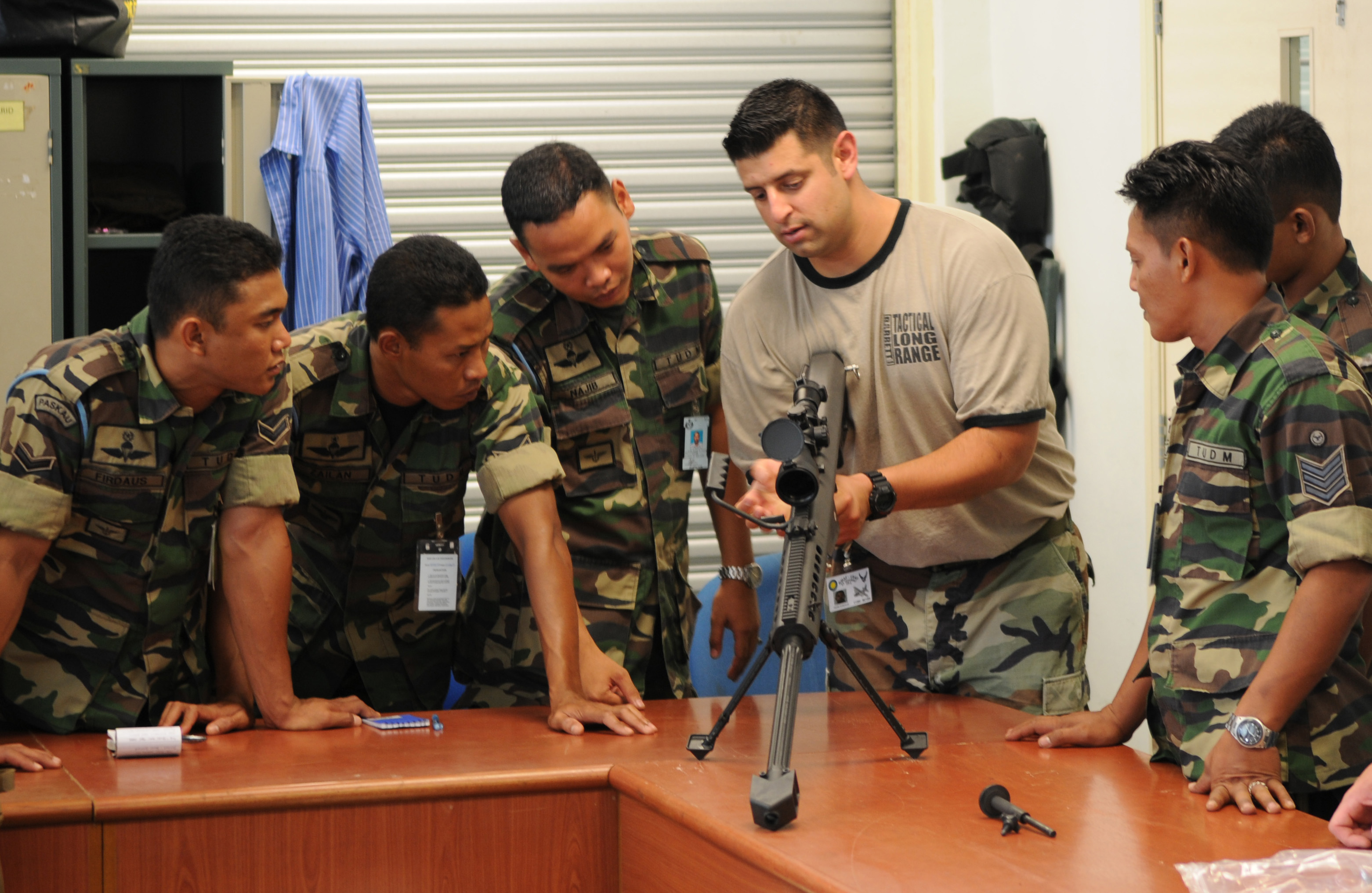 5/31/2009 - Staff Sgt. Jay Gonzales, a weapons specialist with the 320th Special Tactics Squadron, PASKAU members how to do a function check on a M107 .50 caliber sniper rifle during a tactical long range shooting course here May 28 as part of Teak Mint 09-1. Weapons specialists from the 320th STS taught members of 320th and Paskau, the special operations branch of the Royal Malaysian Air Force, during the two-day course. Teak Mint 09-1 is a training exchange designed to enhance U.S and Malaysian military training and capabilities. U.S Air Force photo by Tech. Sgt. Aaron Cram (RELEASED)